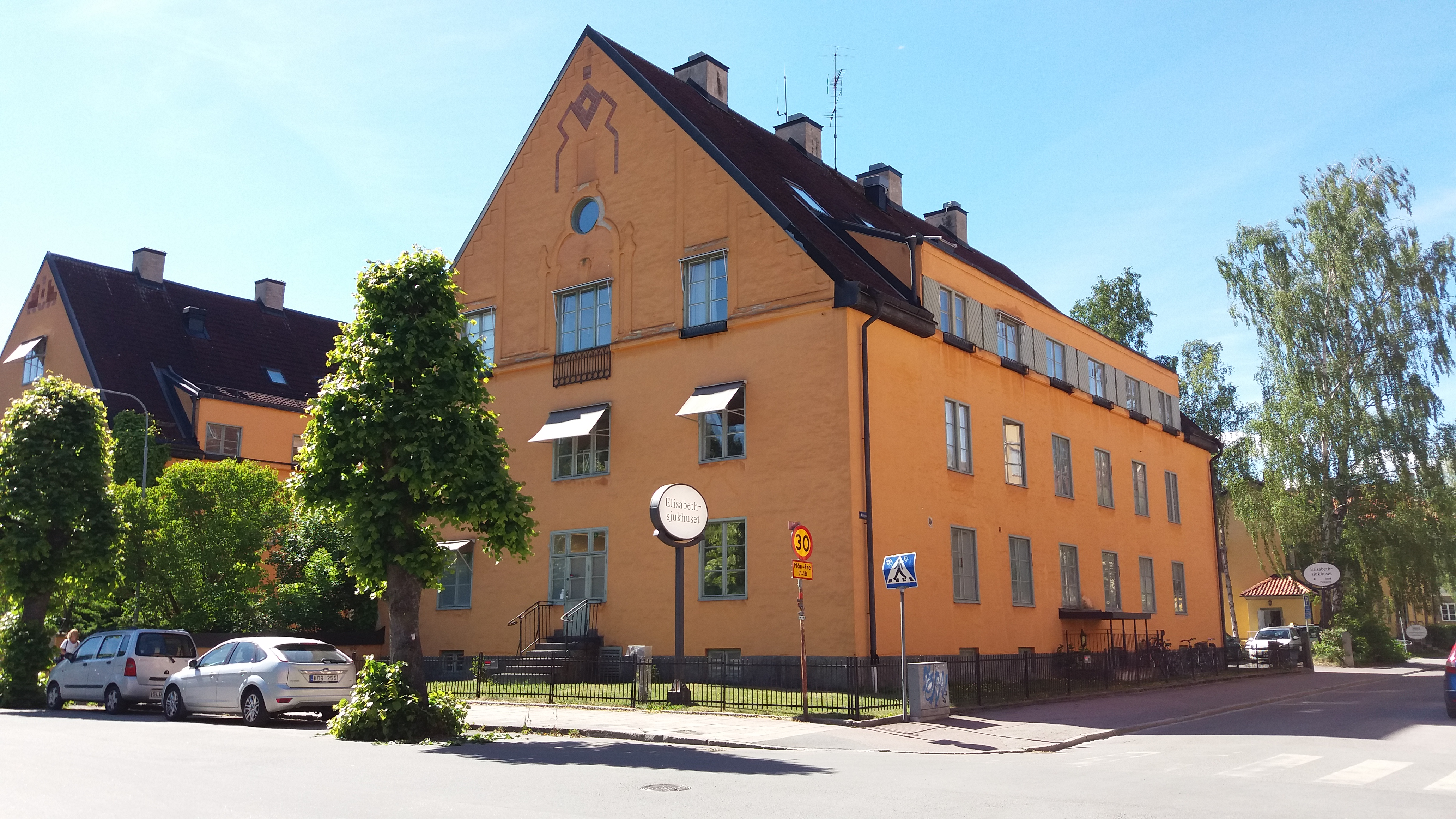 Elisabethsjukhuset, Uppsala